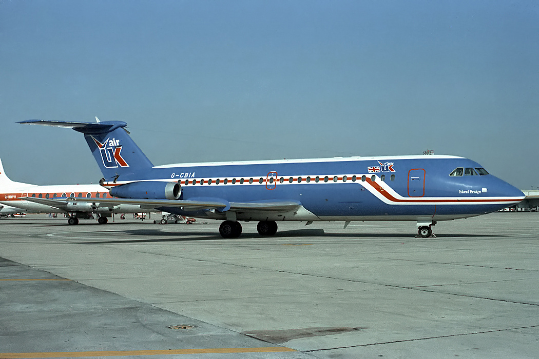 Air UK BAC 111-416EK One-Eleven G-CBIA at Faro Airport